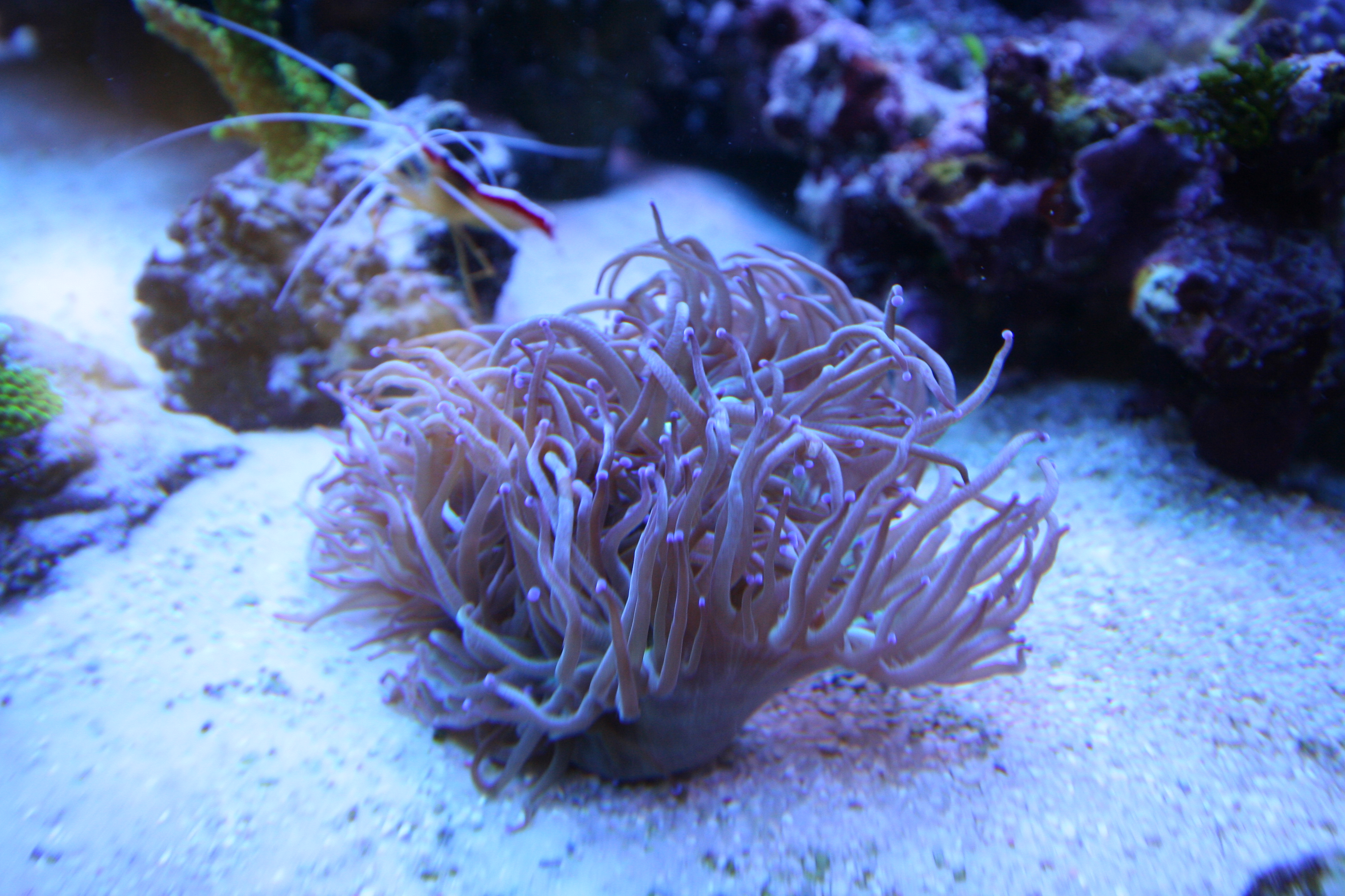 Catalaphyllia jardinei coral eating fish food in aquarium